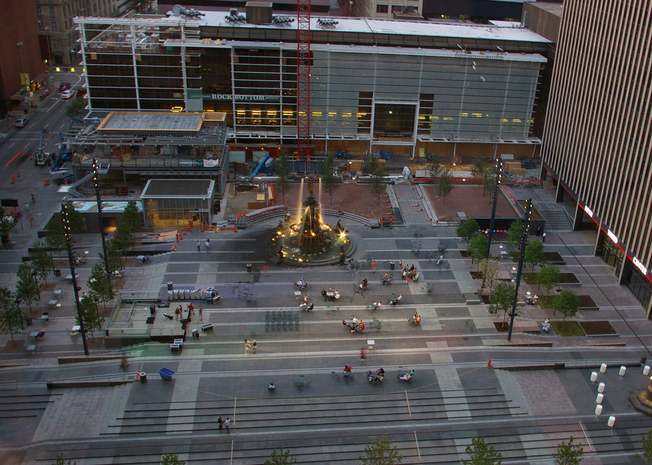 I took this photo of Fountain Square, Cincinnati on Friday, June 8, 2007 from a 12th floor window in the Westin hotel with a Pentax K100D Digital SLR camera.